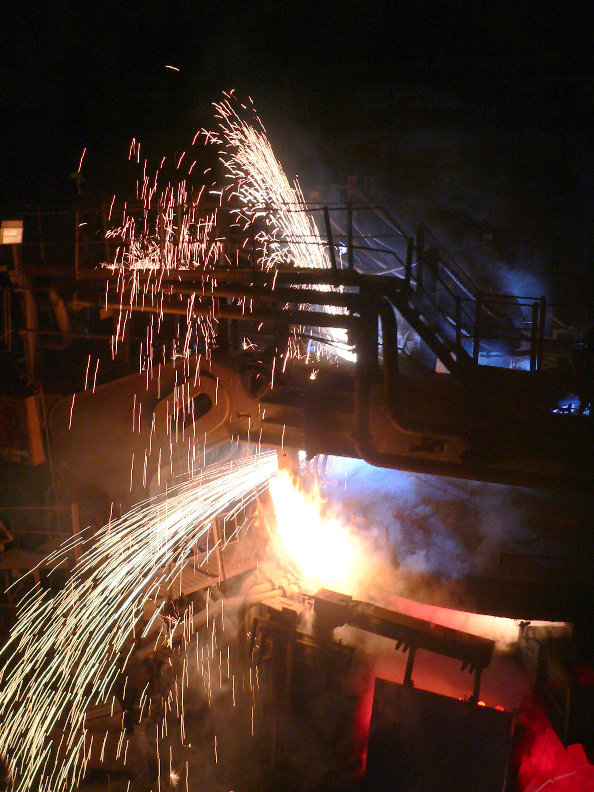 The Furnace at Magna science adventure centre Rotherham, UK. Taken 14/10/2006 using Panasonic DMC-FZ20 camera.